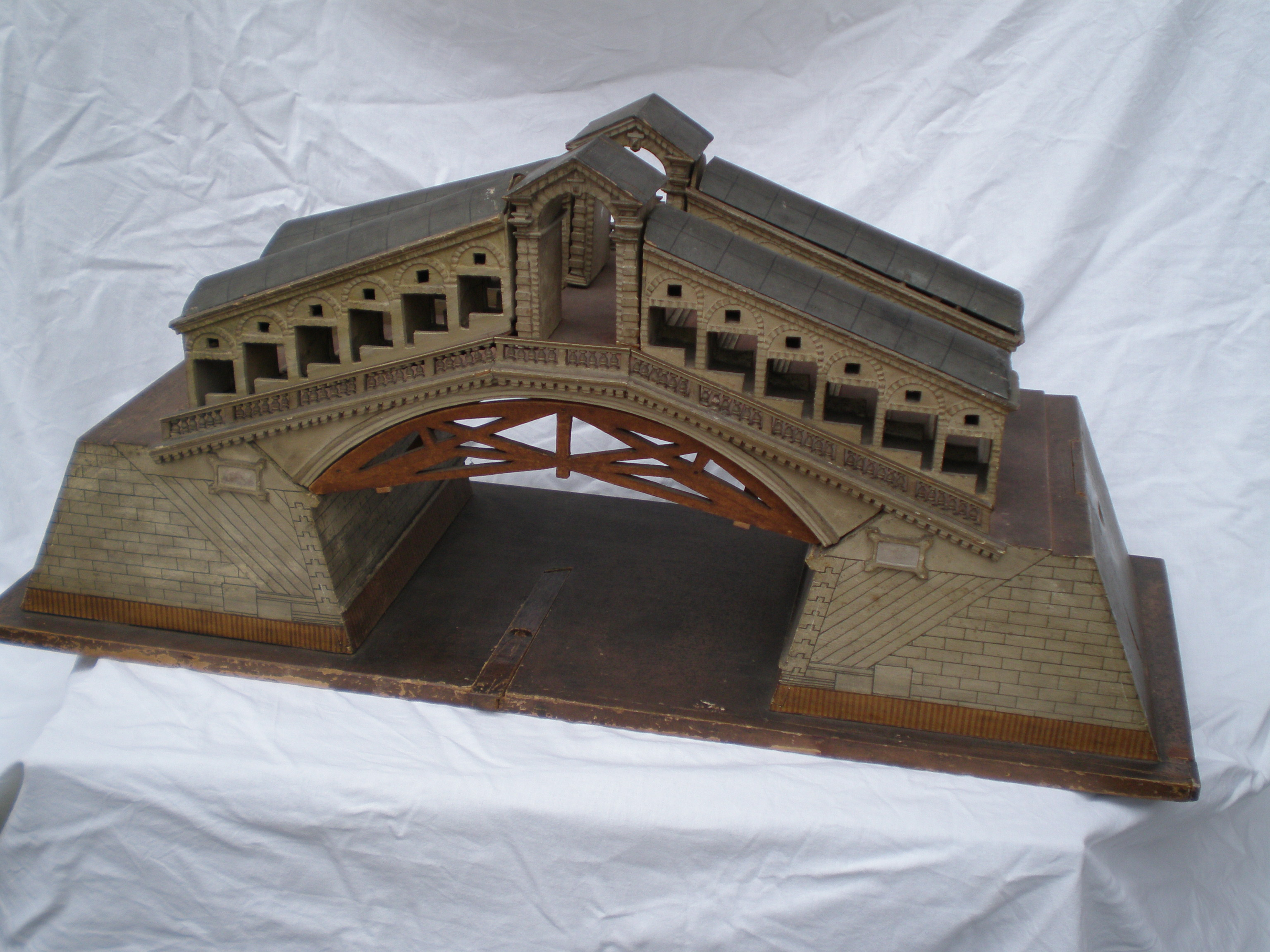 model of Rialto-Bridge at Venice in possession of Wolf Jacob Stromer (1561 -1614)